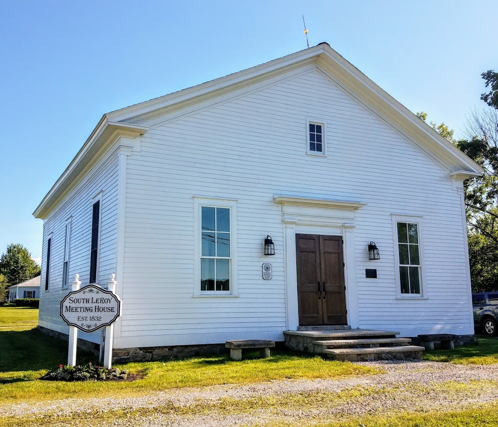 The South LeRoy Meeting House was erected by Henry Brakeman in 1822 and finished in 1832. The church was deeded to the Methodist Episcopal Church in 1821. In the 1930's it became known as The Brakeman Church. The building has been restored.